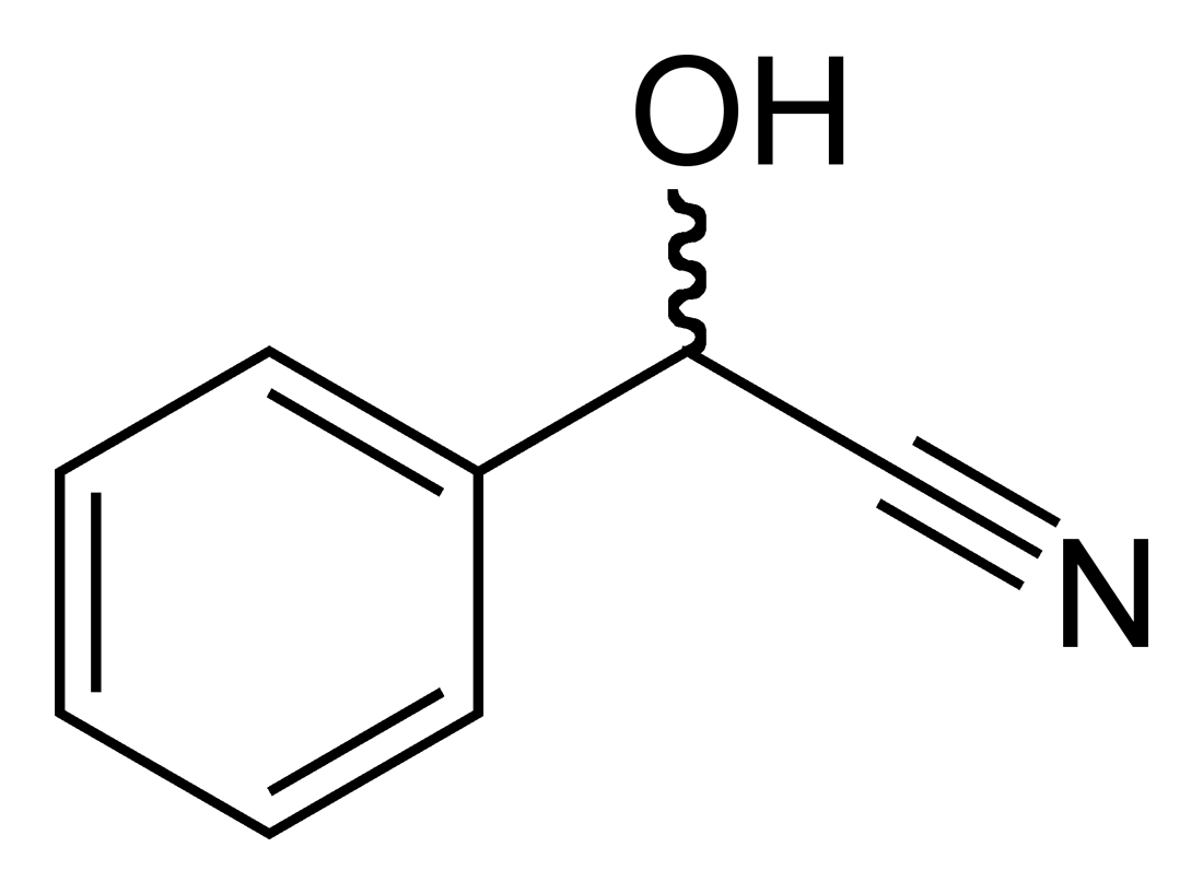 Skeletal formula of the mandelonitrile (2-hydroxy-2-phenylacetonitrile) molecule, C8H7NO, with unspecified stereochemistry.